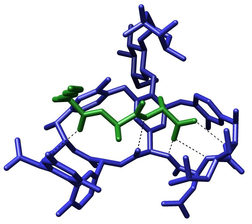 This is a picture generated from crystal structure data reported by James R. Knox and R. F. Pratt in Antimicrobial Agents and Chemotherapy, Year 1990, Volume 34, Issue 7, Pages 1342-1347. It shows a short peptide (L-lysyl-D-alanyl-D-alanine), which is a bacterial cell wall precursor, bound to the antibiotic vancomycin. The peptide is bound to vancomycin through five hydrogen bonds indicated by the dotted lines. It was made by myself and is free to be used by all.